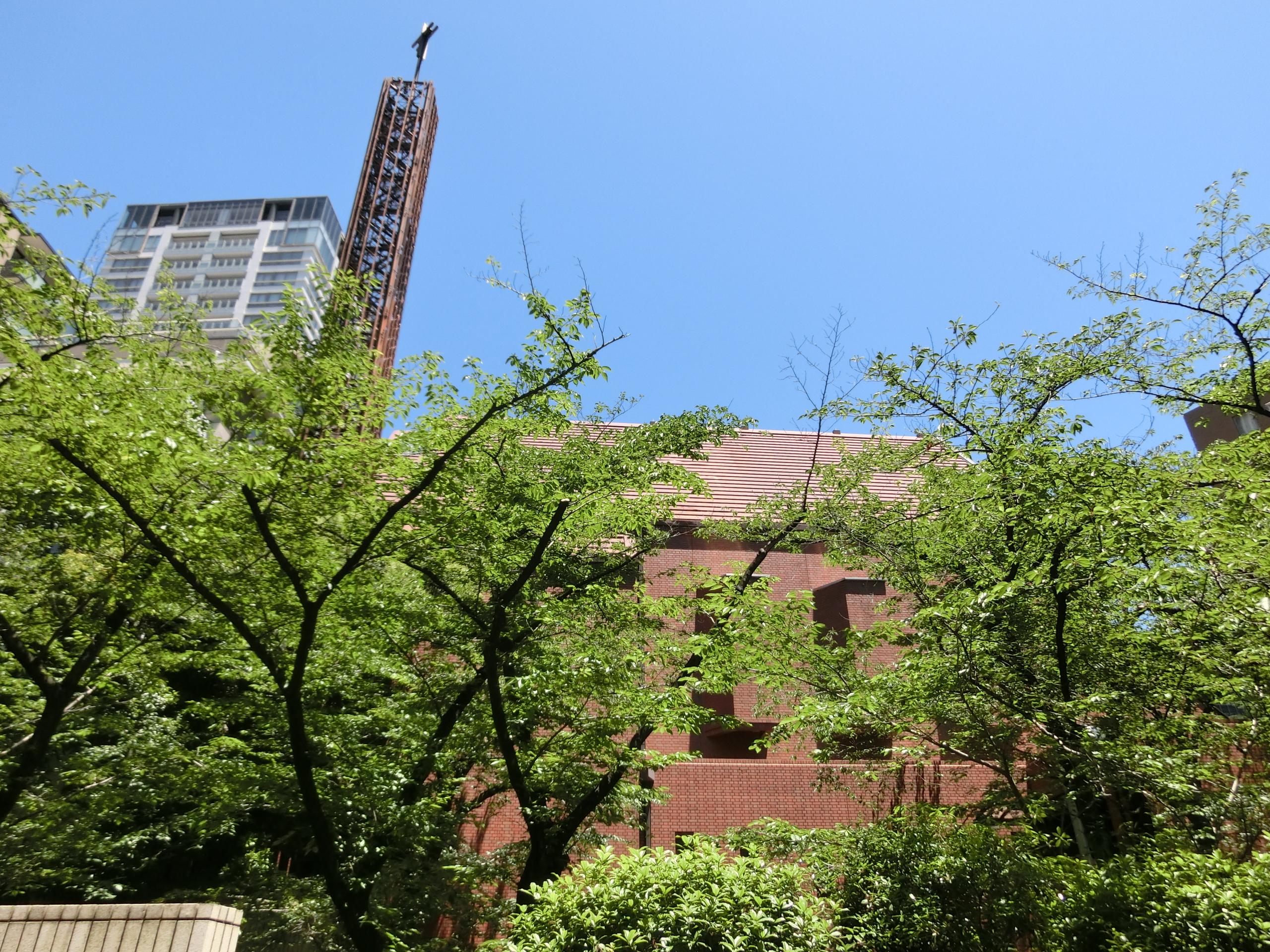 UCCJ Reinanzaka Church